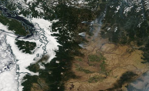 Color satellite image of State of Washington on August 1, 2018. Low clouds on the coast and in Western Washington are visible. Elsewhere the ground is quite visible, with the exception of smoke from some forest fires in the Cascades.